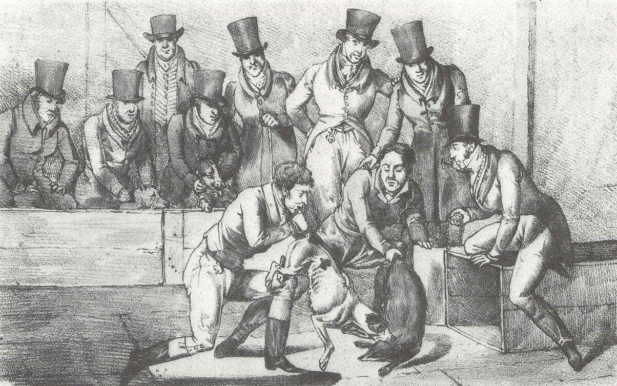 Title: Badger Baiting, London, circa 1824.